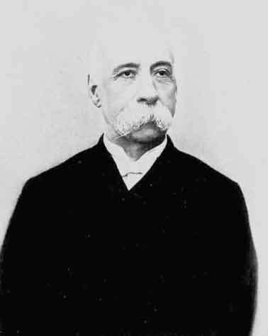 Francesco Crispi. Prime Minister of Italy. From a photograph taken in 1887